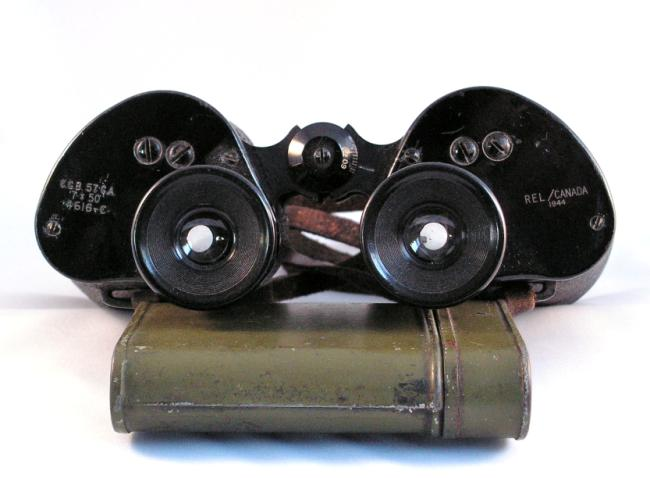 A pair of Research Enterprises Limited 7x50 binoculars from 1944, propped up on a metal canister. The "CGB 57" marking indicates this was made under "Contract to Great Britain, No. 57" and the "GA" indicates it came with a case (not shown). Not all REL binoculars were built at the REL plant, in which case additional markings would indicate the company of manufacture.